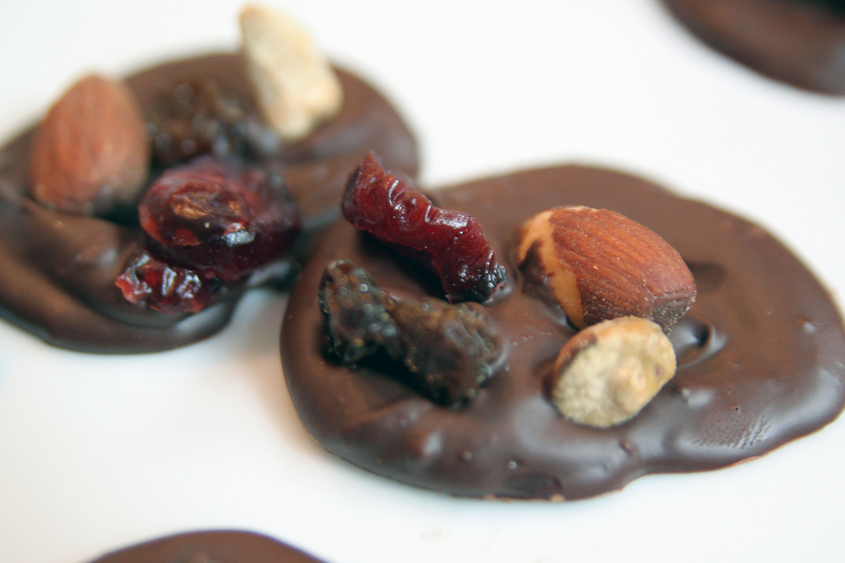 For Macro Mondays: DIY Petite chocolate bites topped with pistachios, raisins, almonds, and orange make for a very grown-up candy. INGREDIENTS * 4 ounces best-quality dark chocolate * 1 tablespoon green pistachio nuts * 1/4 cup golden raisins * 1/4 cup blanched almonds * 2-ounce strips of candied orange peel INSTRUCTIONS 1. Place a sheet of acetate or waxed paper on a marble slab or other smooth, cold surface. Melt chocolate in a microwave oven or in a bowl over hot water. 2. Place a scant teaspoonful of melted chocolate on the sheet, and shape into a disk using the back of a spoon. Make several at a time so that the chocolate does not become too cool. 3. Place a pistachio, raisin, almond, and halved strip of orange peel on each disk, and leave to cool completely. The mendiants are ready when they come off the acetate or waxed paper with ease.